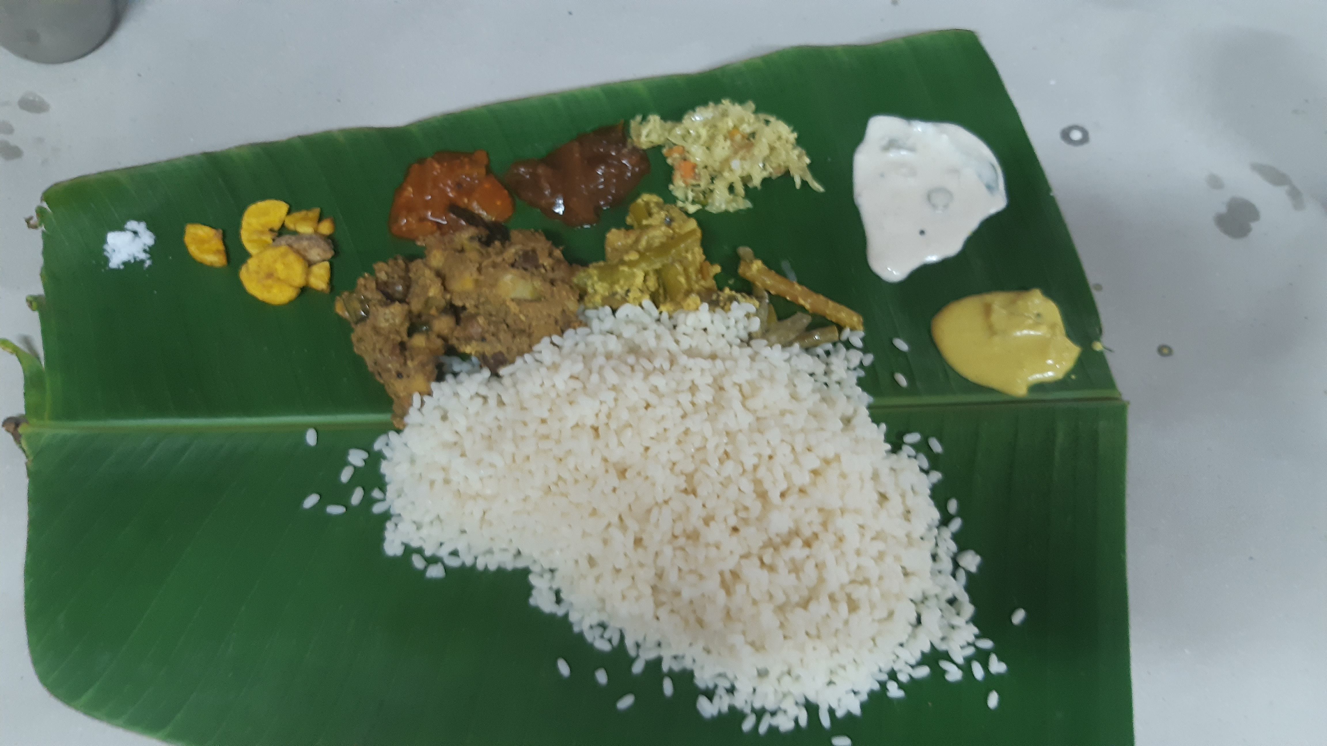 Traditional meals in Kerala are consist of rice with vegetable curries and various side dishes served in plantain leaves usually serves on plantain leaves.